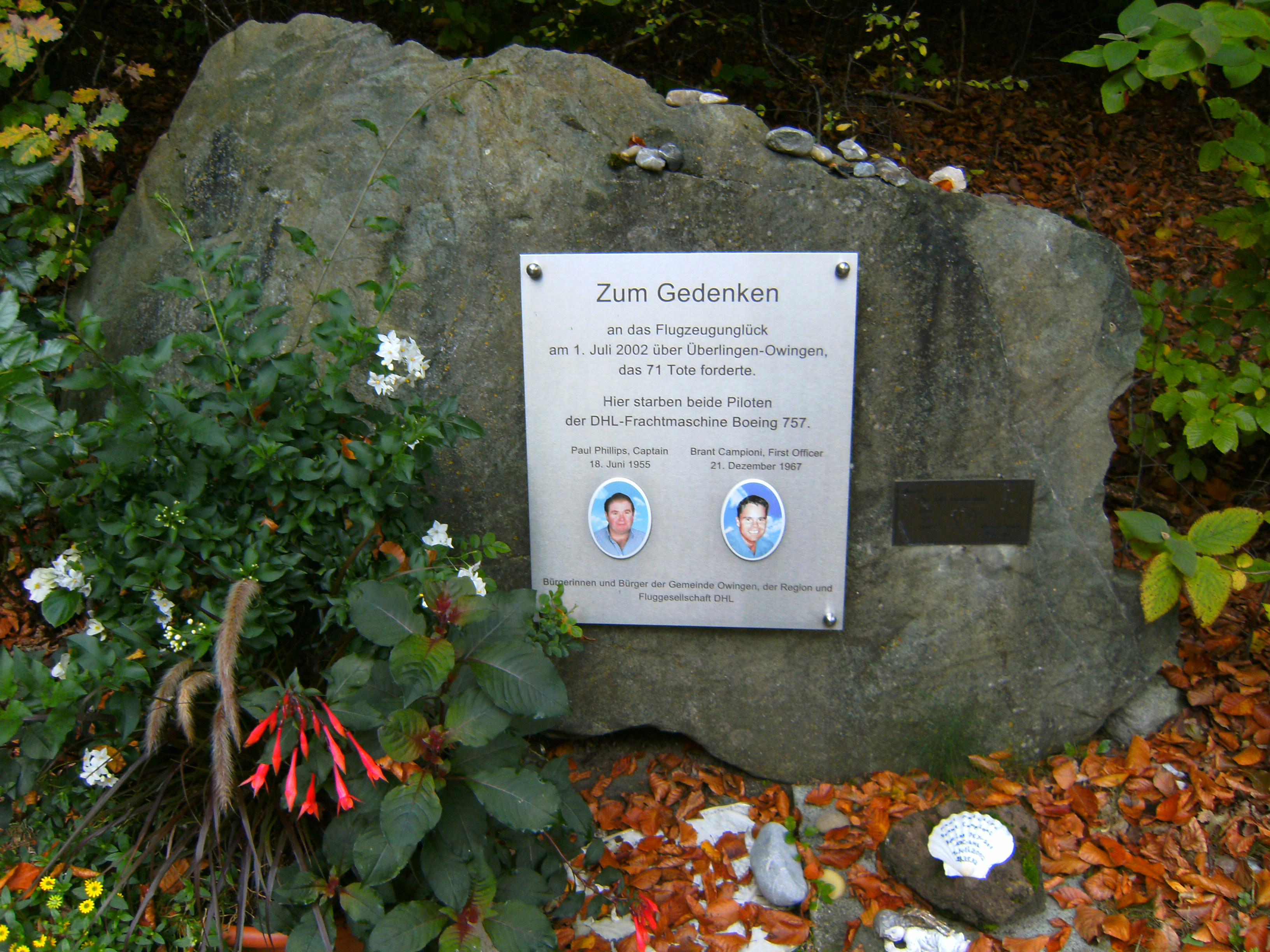 Überlingen mid-air collision. Place of DHL cargo aircraft crash Owingen-Taisersdorf. Stone of remembrence for the pilots.